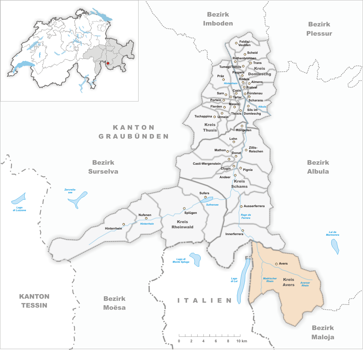 Municipality Avers